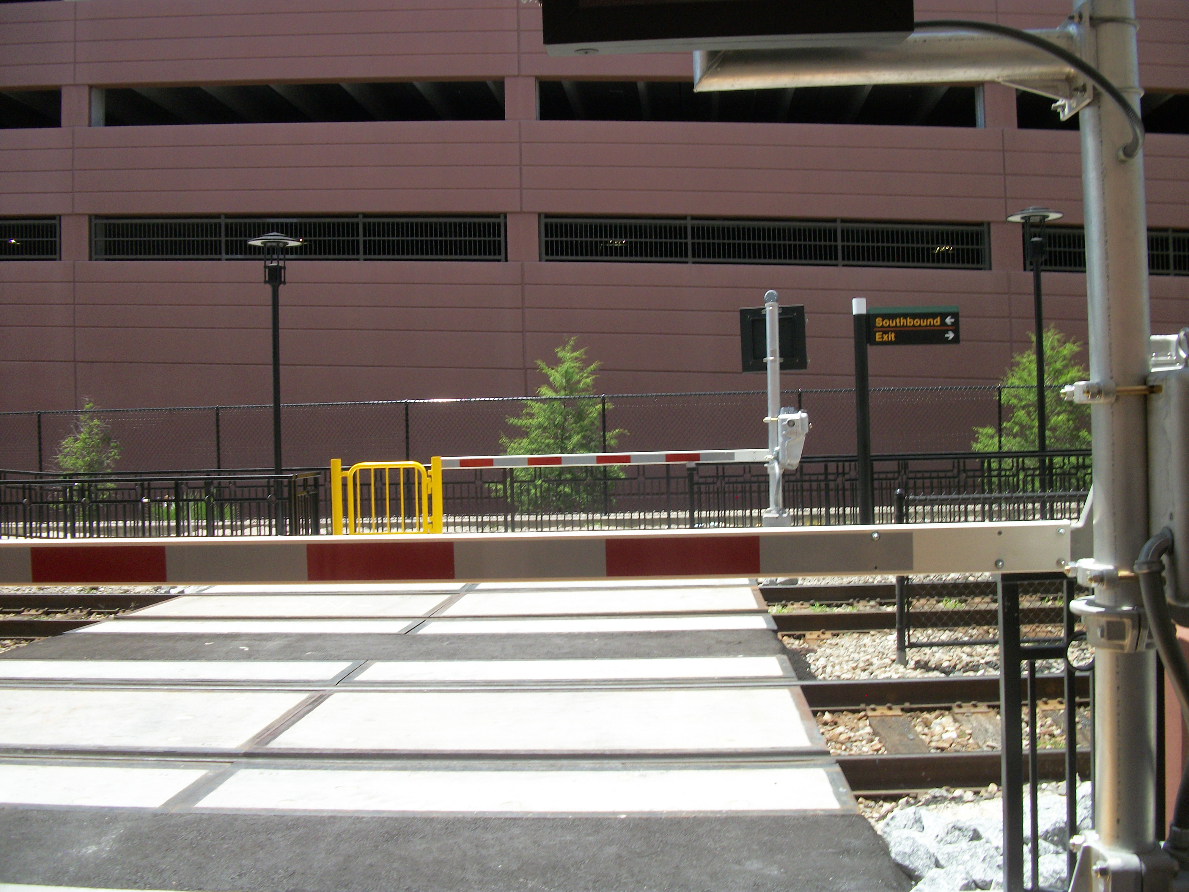 The northern pedestrian crossing at the Florida Hospital Health Village SunRail station in Orlando, Florida. The gates are closed here because an Amtrak train is going to pass through. Another pedestrian crossing exists south of here next to a pair of handicapped platforms.